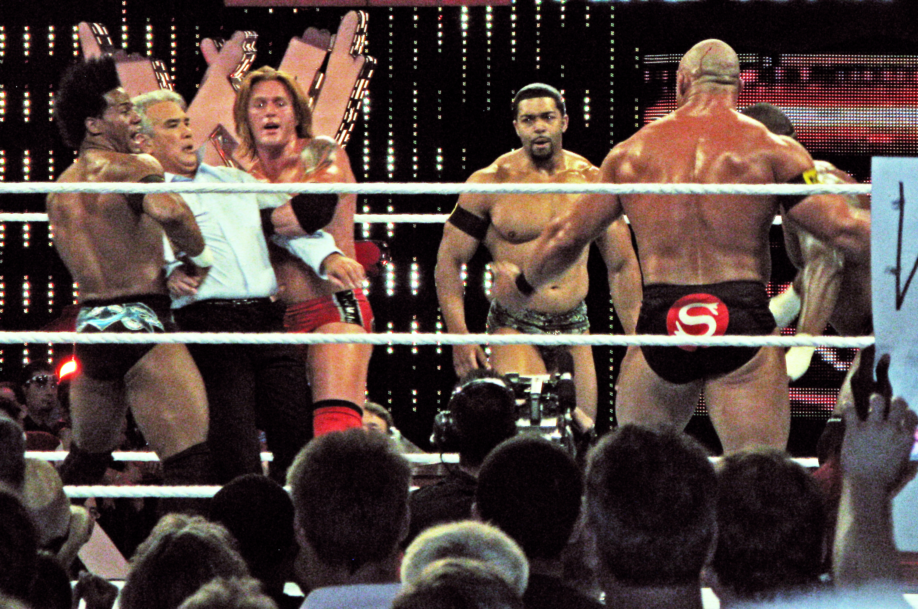 Nexus attacking Ricky Stamboat